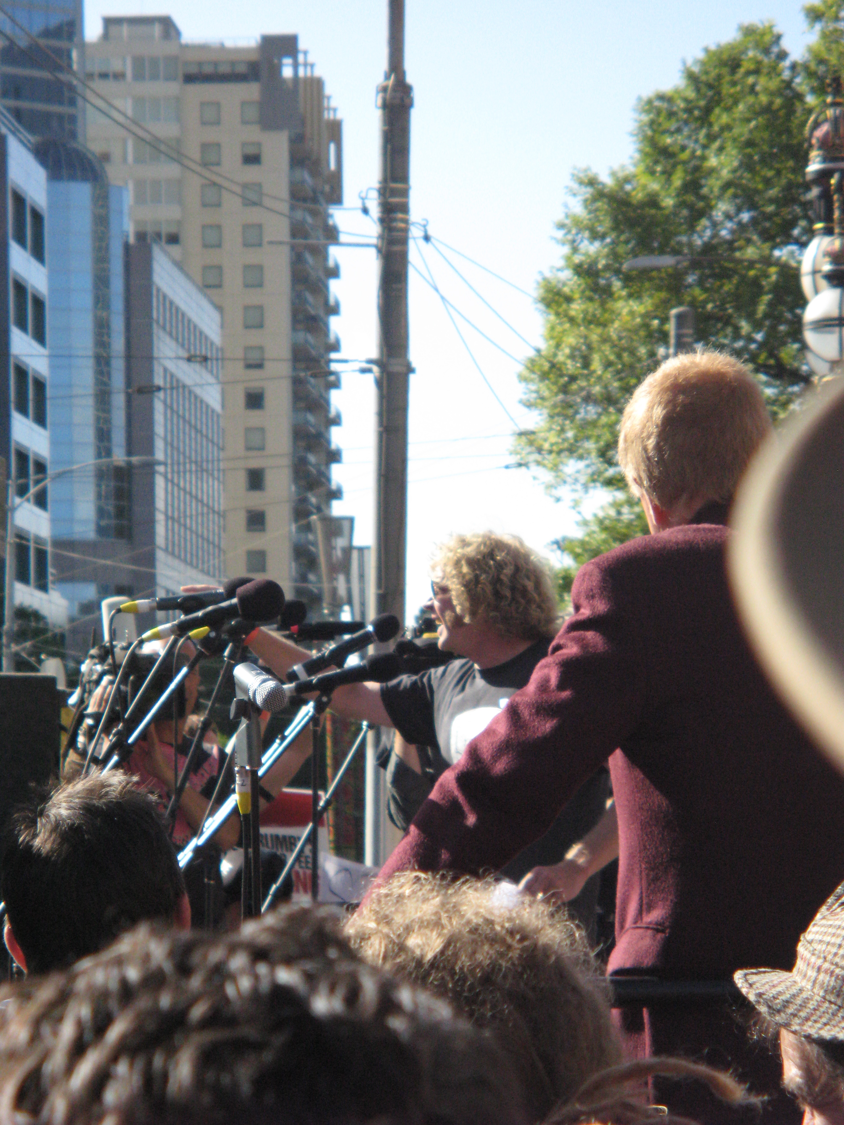 A speaker on stage on the steps of Parliament House, Spring Street, Melbourne, Australia. Photo taken by Nick carson February 23, 2010.